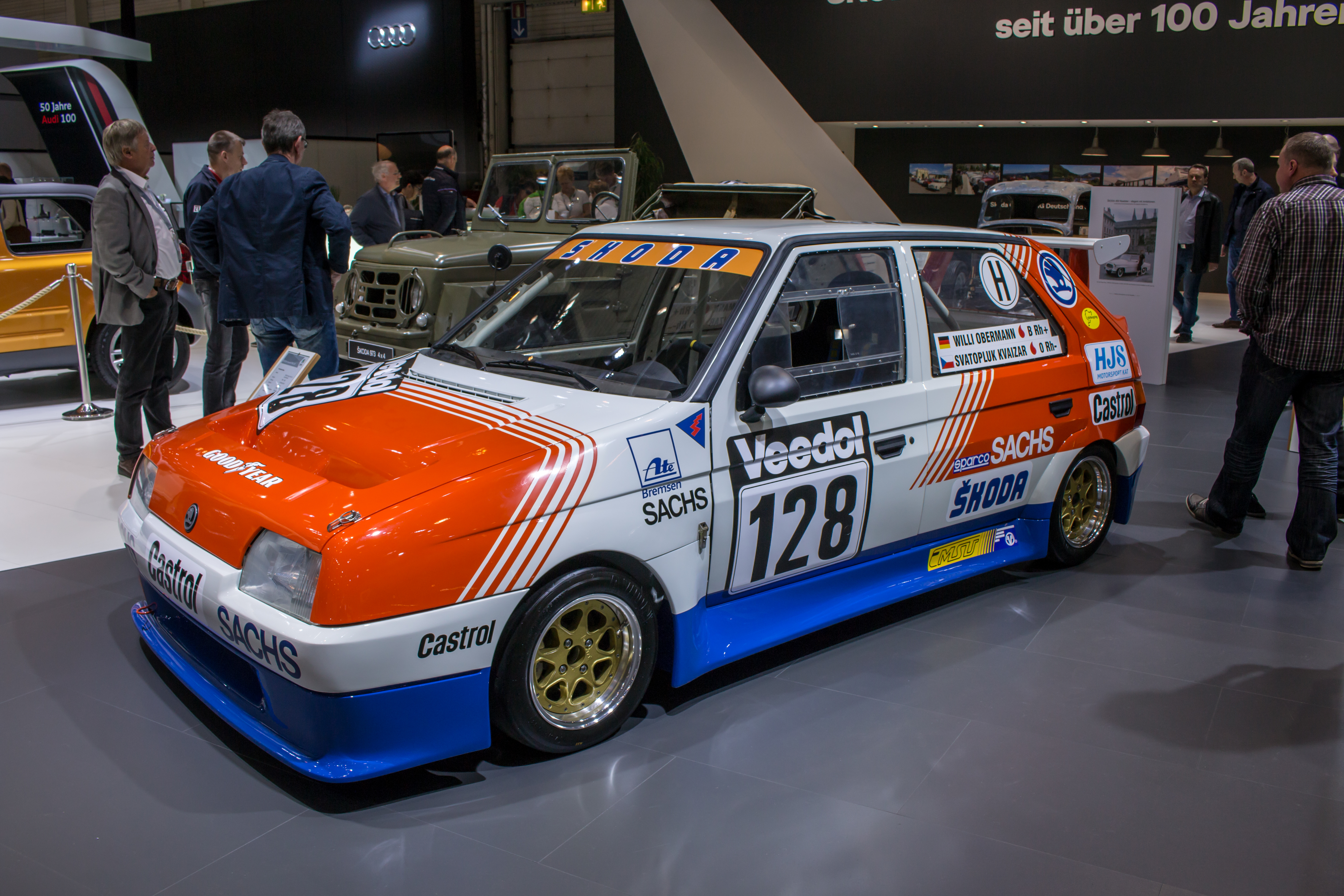 Techno-Classica 2018, Essen